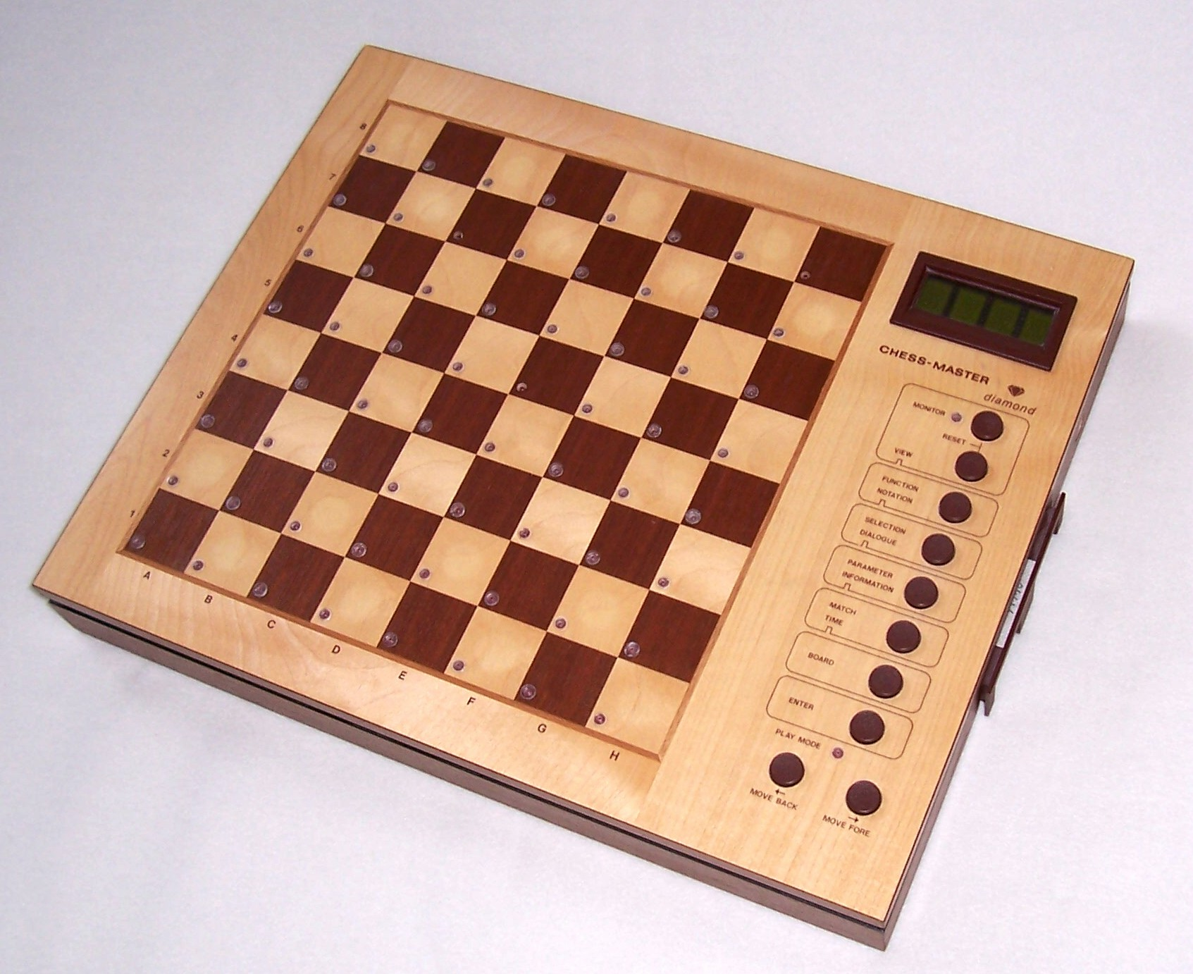 East German chess computer CM diamond (Chess Master diamond)